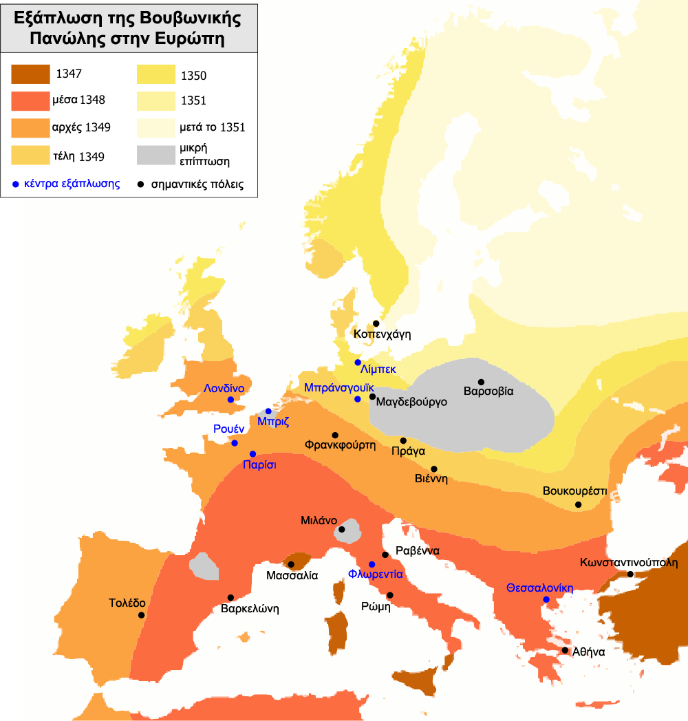 Translation in Greek from the map by Χρήστης:Lord Makro